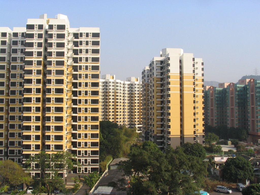 豫豐花園 The Sherwood